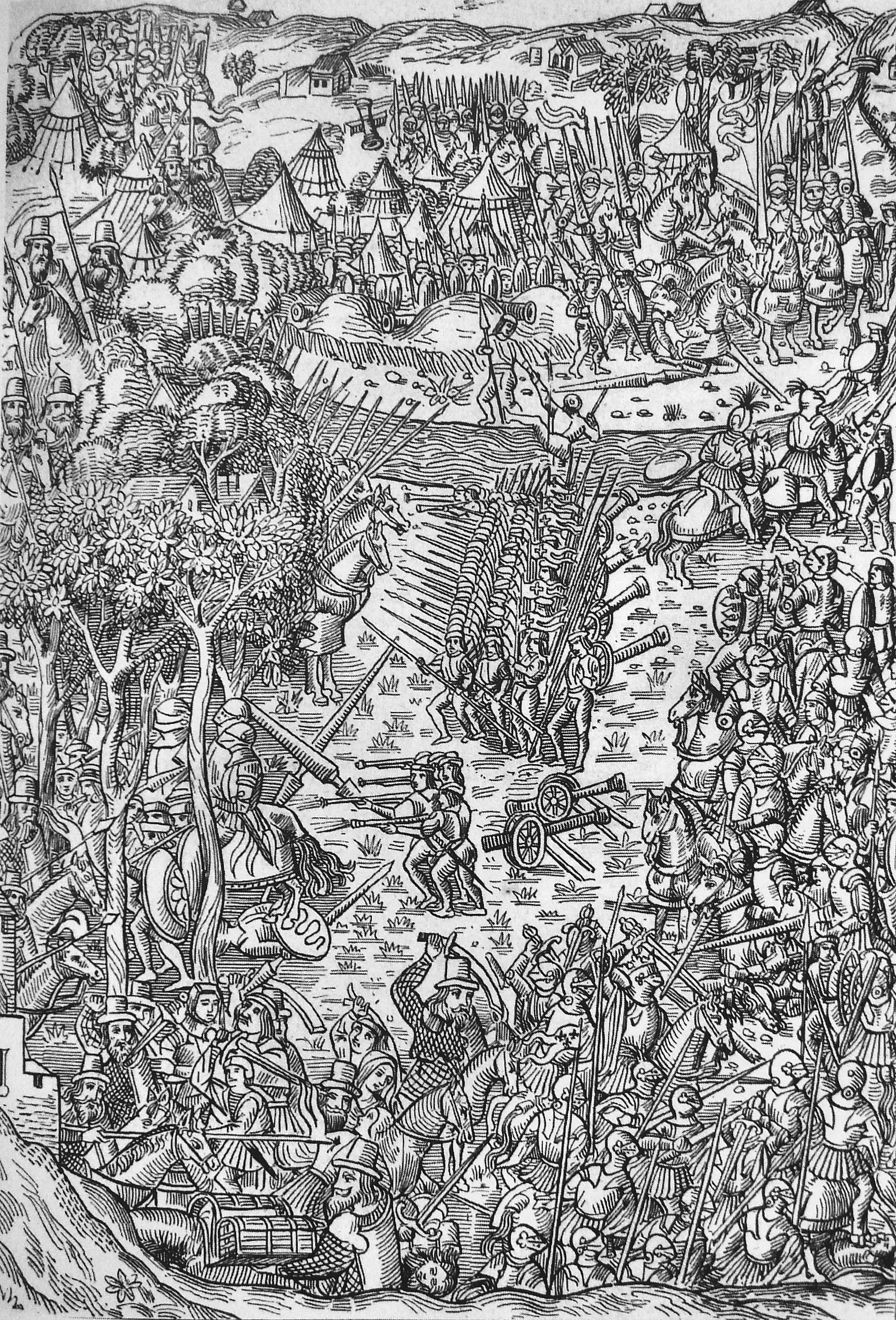 Battle_of_Fornoue_6_July_1495